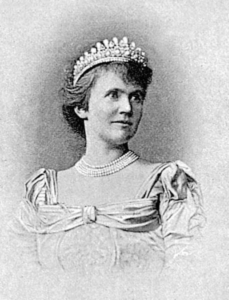 Pauline Elisabeth Ottilie Luise zu Wied (December 29, 1843 - November 2, 1916) was the Queen Consort of King Carol I of Romania, widely known by her literary name of Carmen Sylva.